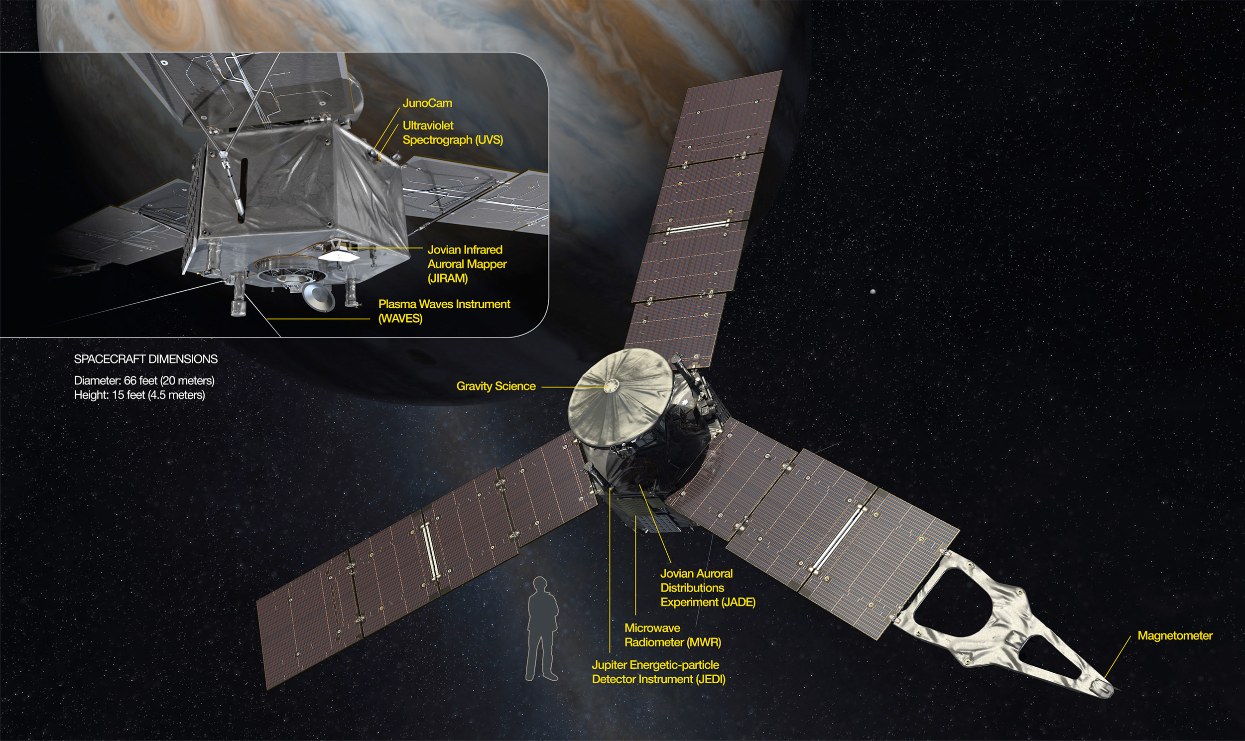 Juno spacecraft and its science instruments (artist's view)